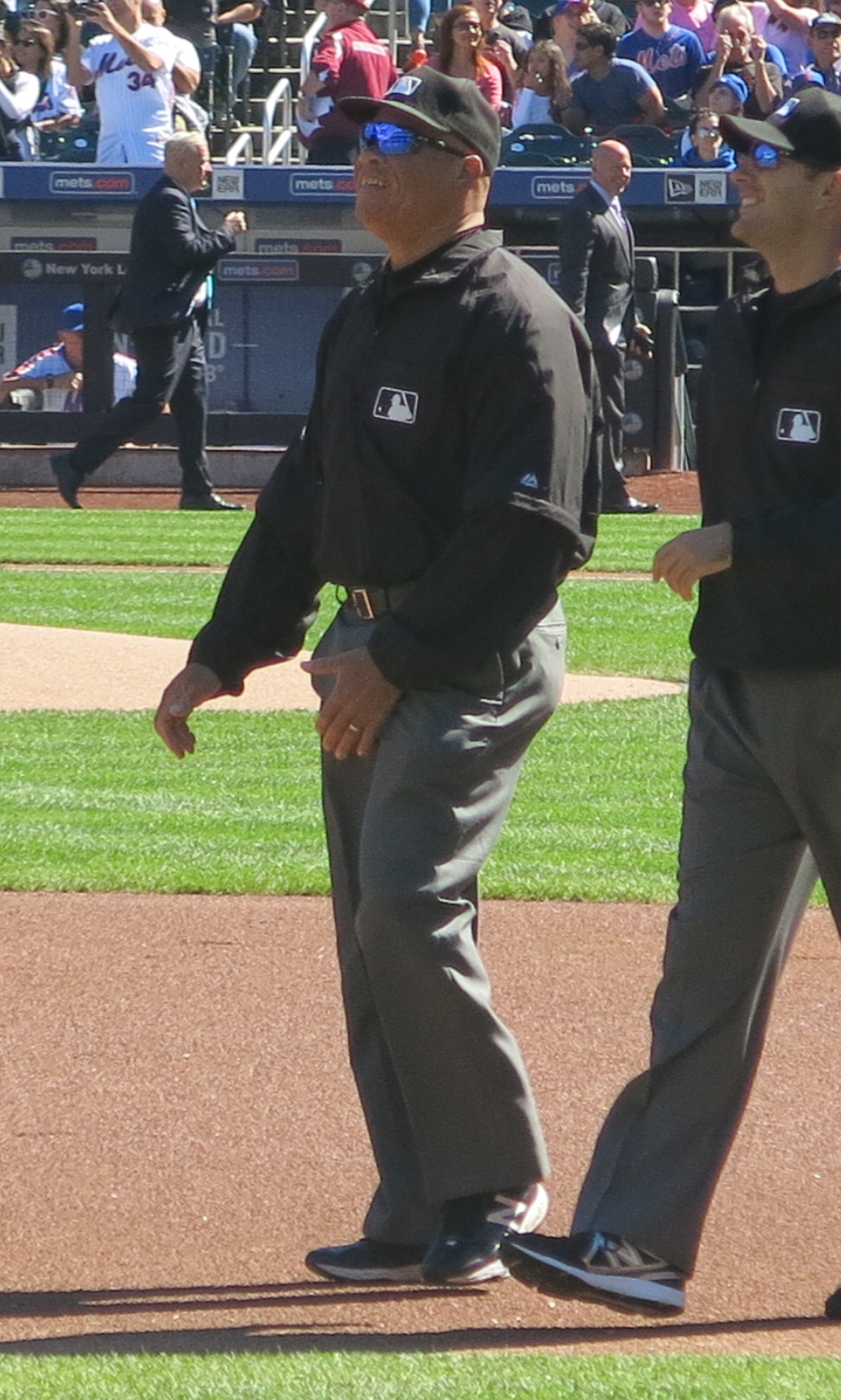 Kerwin Danley and Pat Hoberg, September 25, 2016.